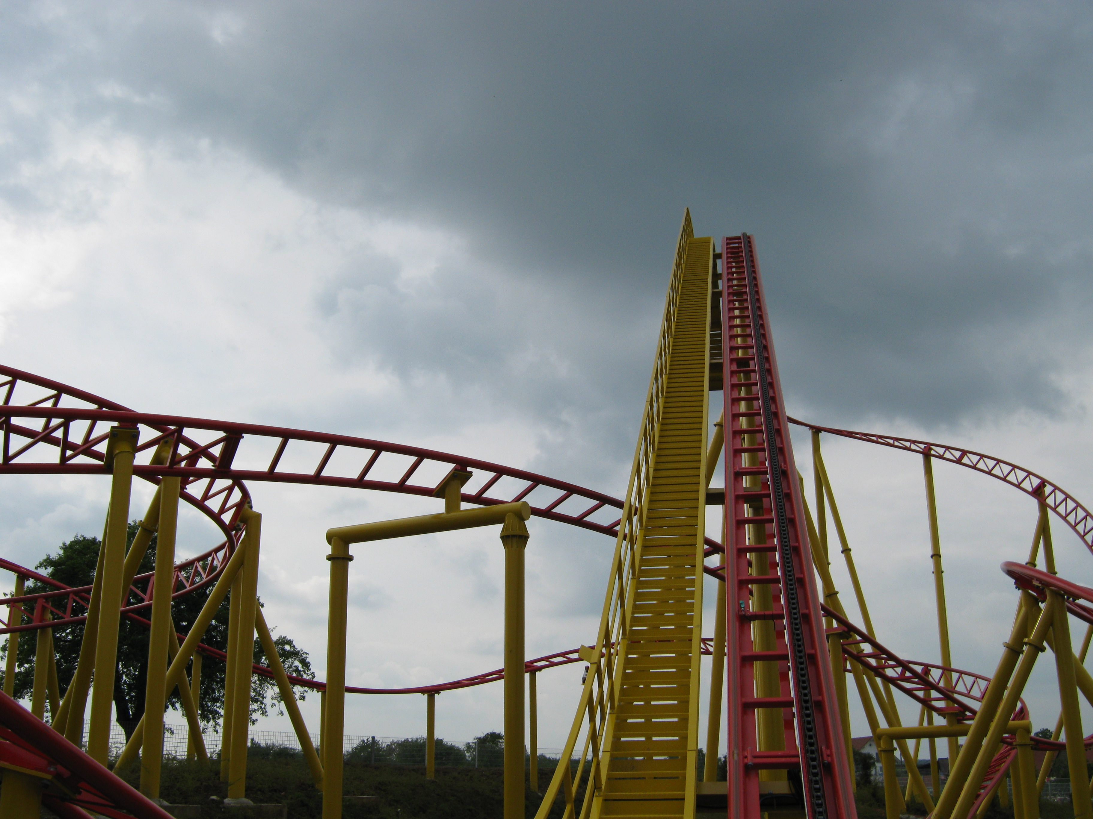 Lifthill of roller coaster "Force One"